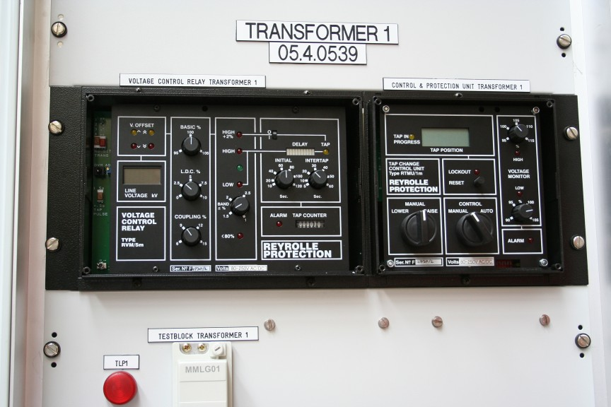 The voltage regulator from Reyrolle works on the principle of minimum circulating reactive current.